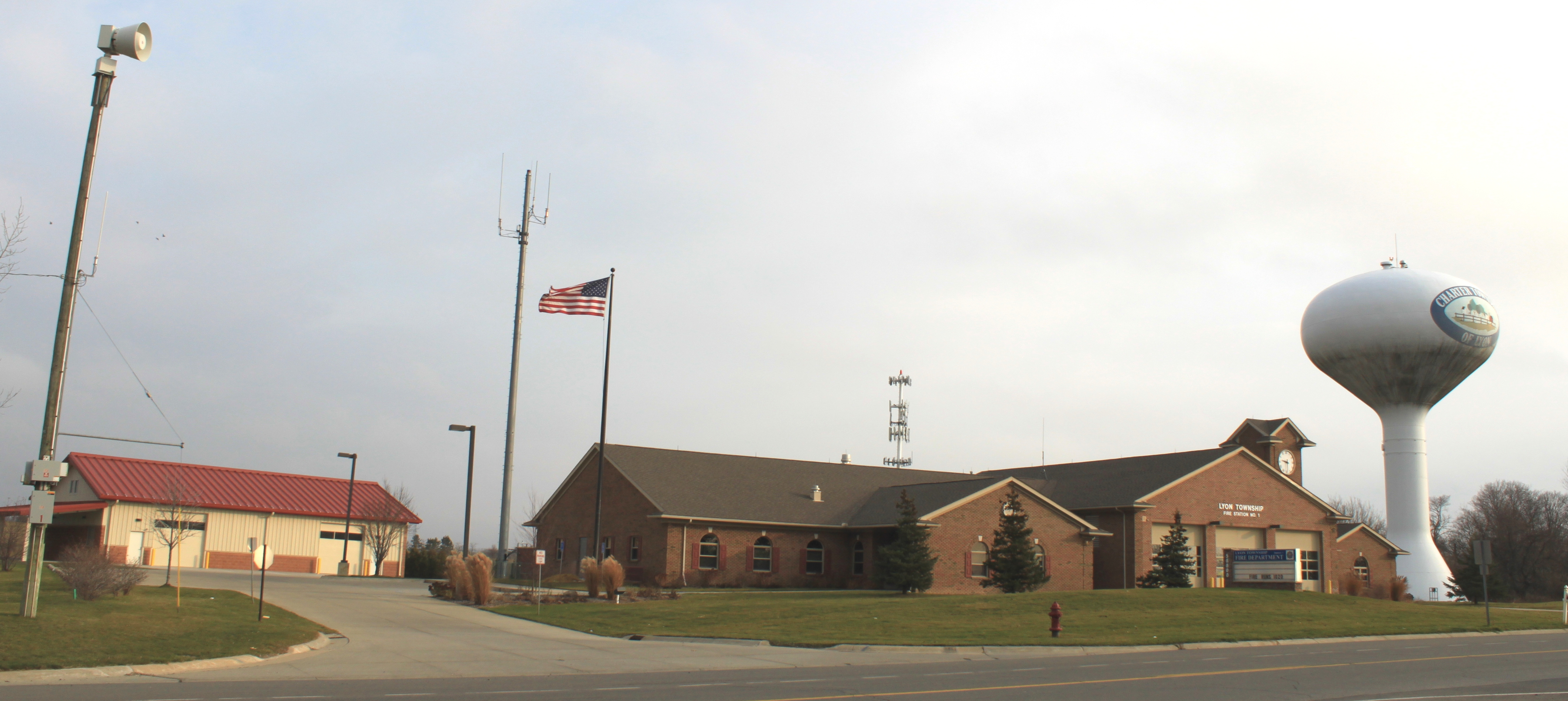 Lyon Township Fire Station #1, 58800 Grand River Avenue, New Hudson, (Oakland County) Michigan